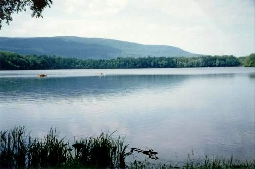 Camelback Mountain (Big Pocono) from Mt. Spring Lake. Photo by: Joe Calzarette